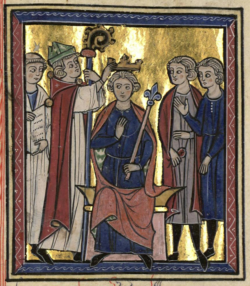 Coronation of Fulk, king of Jerusalem. (Bibliothèque nationale de France, Français 9084, fol. 169)